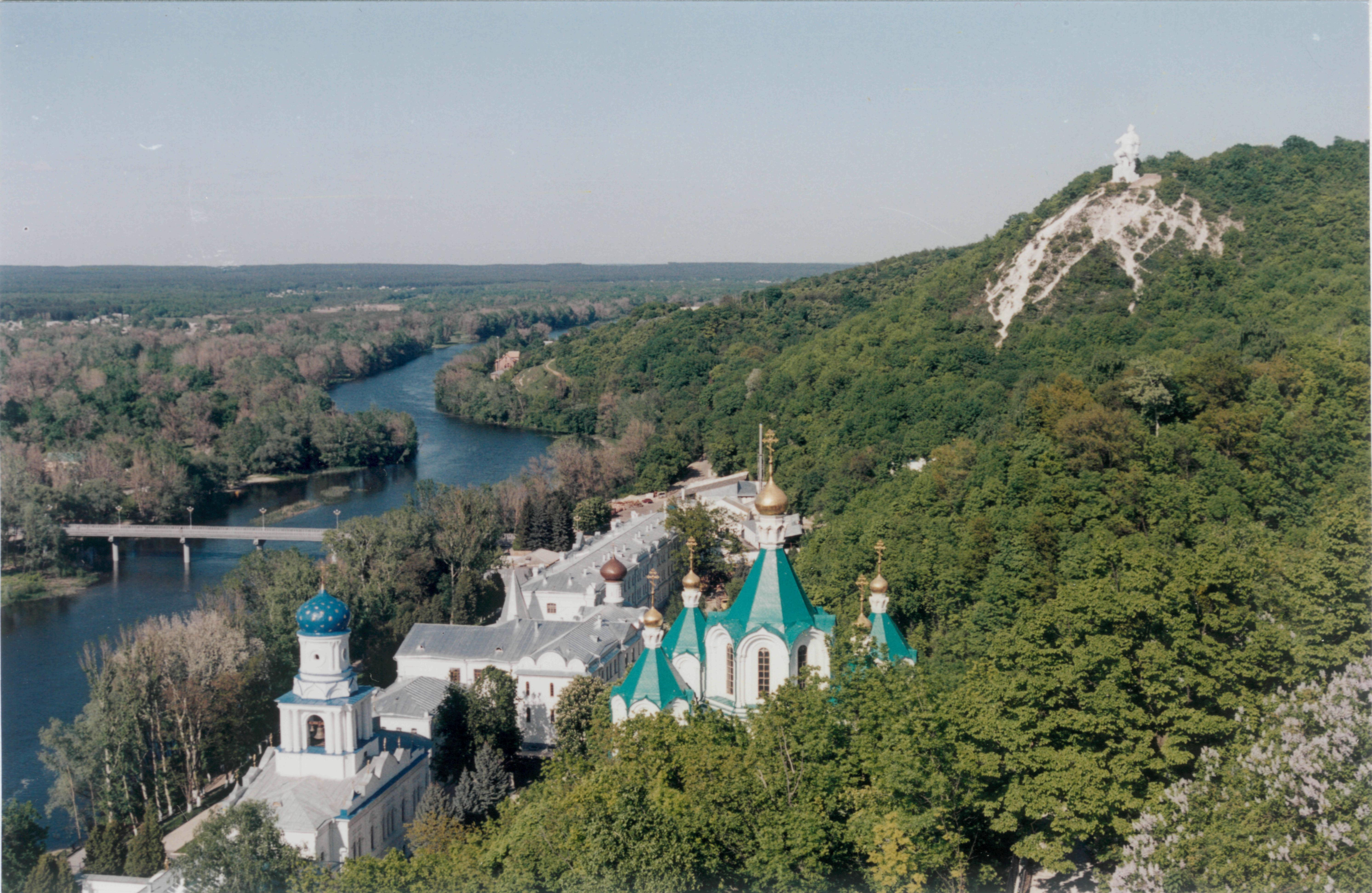 Seversky Donets, Sviatogorsk Lavra, sculpture of Fyodor Sergeyev by Kavaleridze on a chalk hill, Sviatogorsk, Donetsk Oblast. Analog photo.